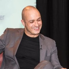 Portrait of Oliver Cookson